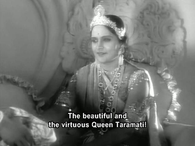 Durga Khote as Taramati in Ayodhyecha Raja (1932).